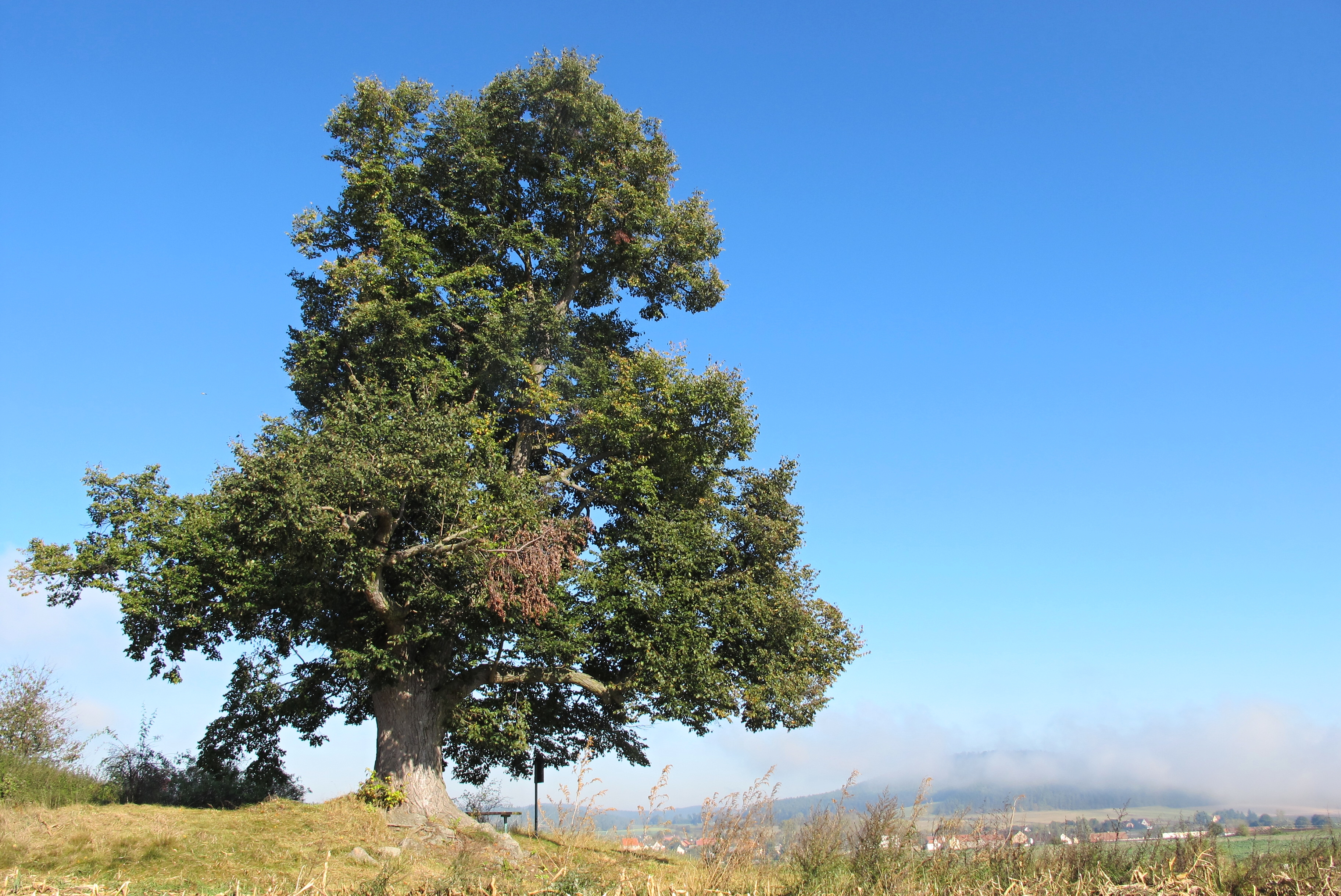 Famous tree (Tilia cordata) near Křepenice (road between Křepenice and Dublovice), Příbram District in Czech Republic Project: Chráněná území.